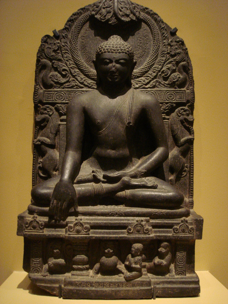 India, Bihar, Gaya District, South Asia Buddha Shakyamuni, circa 850 Sculpture; Stone, Chlorite schist, 31 3/4 x 18 1/4 x 9 in. (80.65 x 46.36 x 22.86 cm) From the Nasli and Alice Heeramaneck Collection, Museum Associates Purchase (M.73.4.11) Wikipedia Loves Art at the Los Angeles County Museum of Art This photo of item # M.73.4.11 at the Los Angeles County Museum of Art was contributed under the team name "ARTiFACTS" as part of the Wikipedia Loves Art project in February 2009. Los Angeles County Museum of Art The original photograph on Flickr was taken by sisleyceli—please add a comment to the original Flickr page whenever a use has been made on Wikipedia or another project. Project galleries on Flickr: this institution, this team